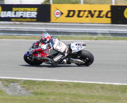 Casey Stoner, GP Brno 2006